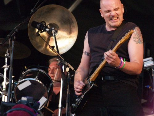 Photograph of Baz Warne, guitarist with the Stranglers, playing on the second day of the Bestival Festival 2006, on the Isle of Wight. Jet Black is on the drums.